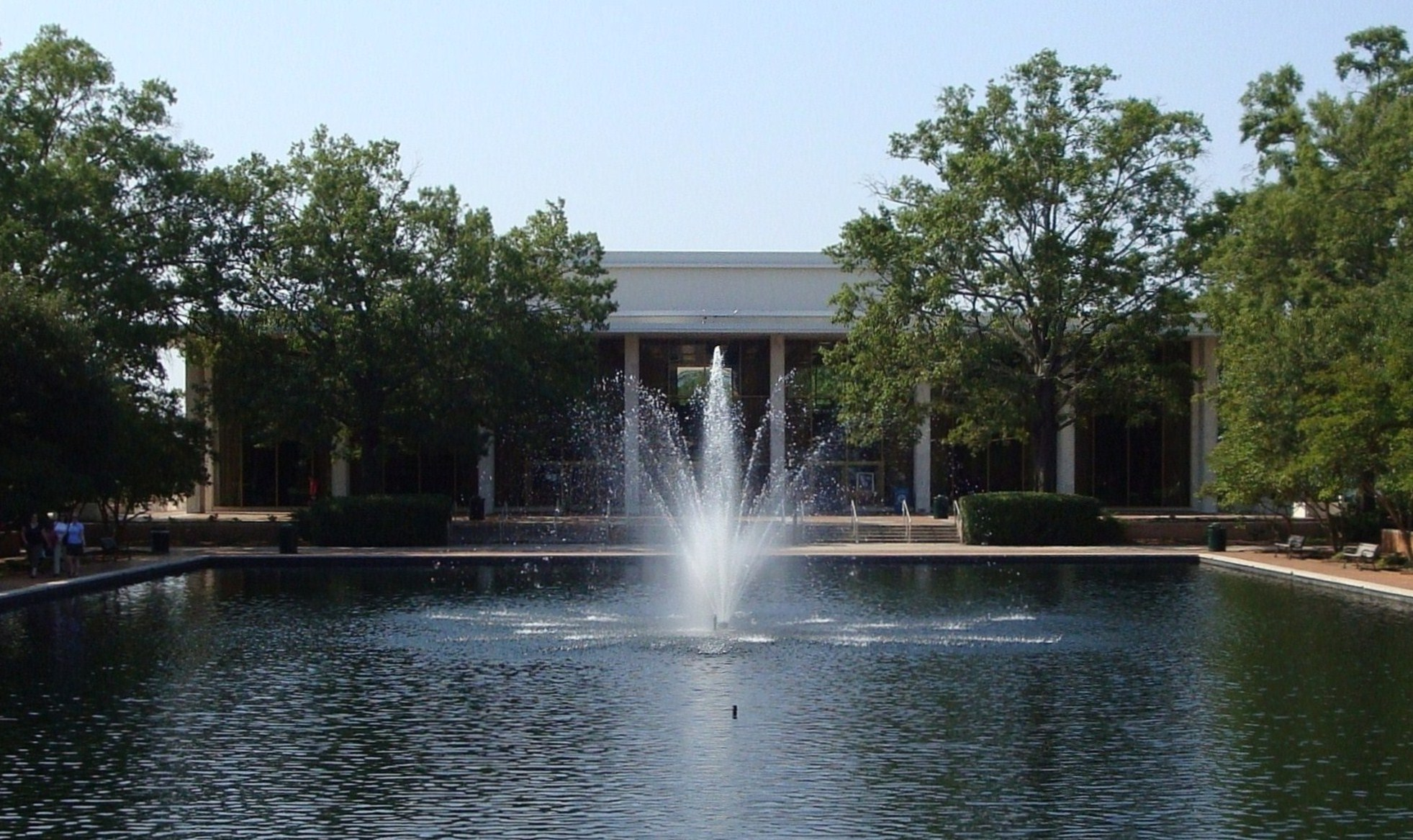 Built in 1959, the Thomas Cooper Library was first opened as the undergraduate library and now serves as the main student library on the University of South Carolina campus. It now also houses the Ernest F. Hollings Special Collections Library.